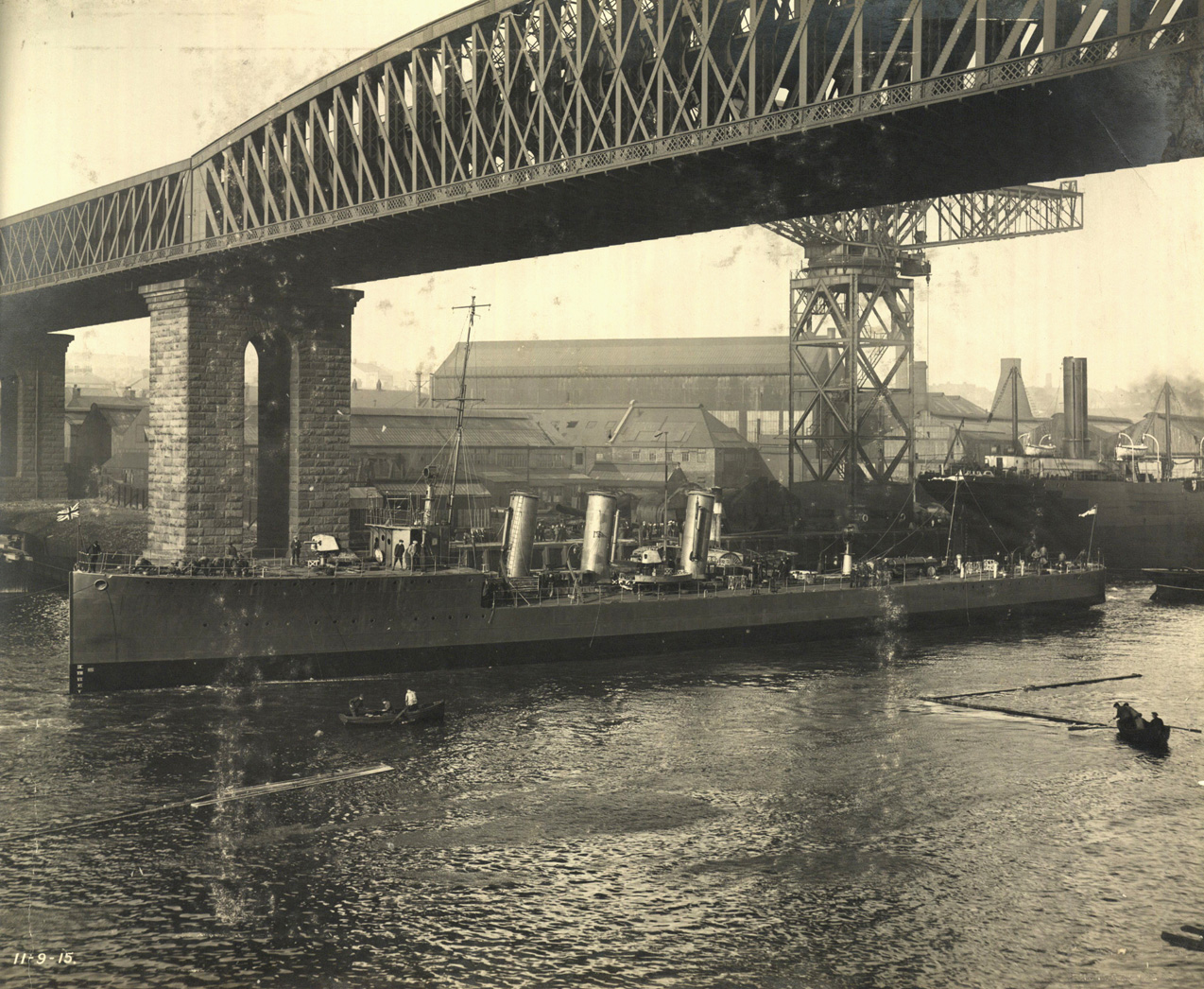 View of the First World War torpedo boat destoyer HMS Opal, launched by William Doxford & Sons Ltd, September 1915 (TWAM ref. DS.DOX/6/8). Tyne & Wear Archives is proud to present a selection of images from its Sunderland shipbuilding collections. The set has been produced to celebrate Sunderland History Fair on 7 June 2014. It's a reminder of the thousands of vessels launched on the River Wear and the many outstanding achievements of Sunderland’s shipyards and their workers. These photographs reflect Sunderland’s history of innovation in shipbuilding and marine engineering from the development of turret ships in the 1890s through to the design for SD14s in the 1960s. The Sunderland shipbuilding collections are full of fascinating stories. Some of these are represented in this set, such as the ‘Rondefjell’, launched in two halves on the River Wear by John Crown & Sons Ltd and then joined together on the River Tyne. The set also shows the vital part that Sunderland’s shipbuilding industry played during the First World War. William Doxford & Sons Ltd built Royal Naval destroyers such as HMS Opal, which served in the Battle of Jutland, while other yards constructed cargo ships to help keep these shores supplied.